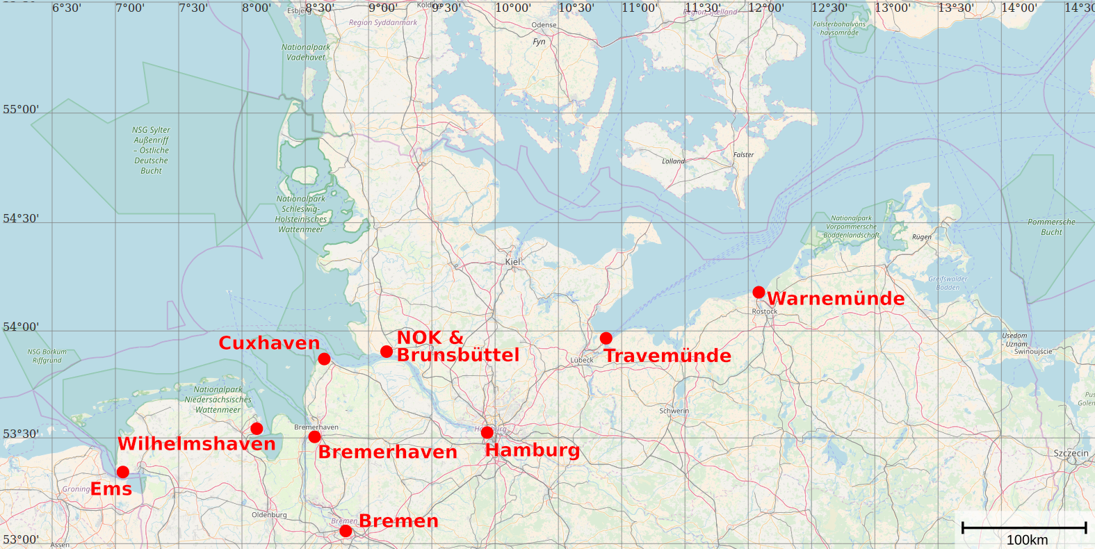 Map of Vessel Traffic Service Centers (Verkehrszentralen) in Germany, map based on OpenSeaMap